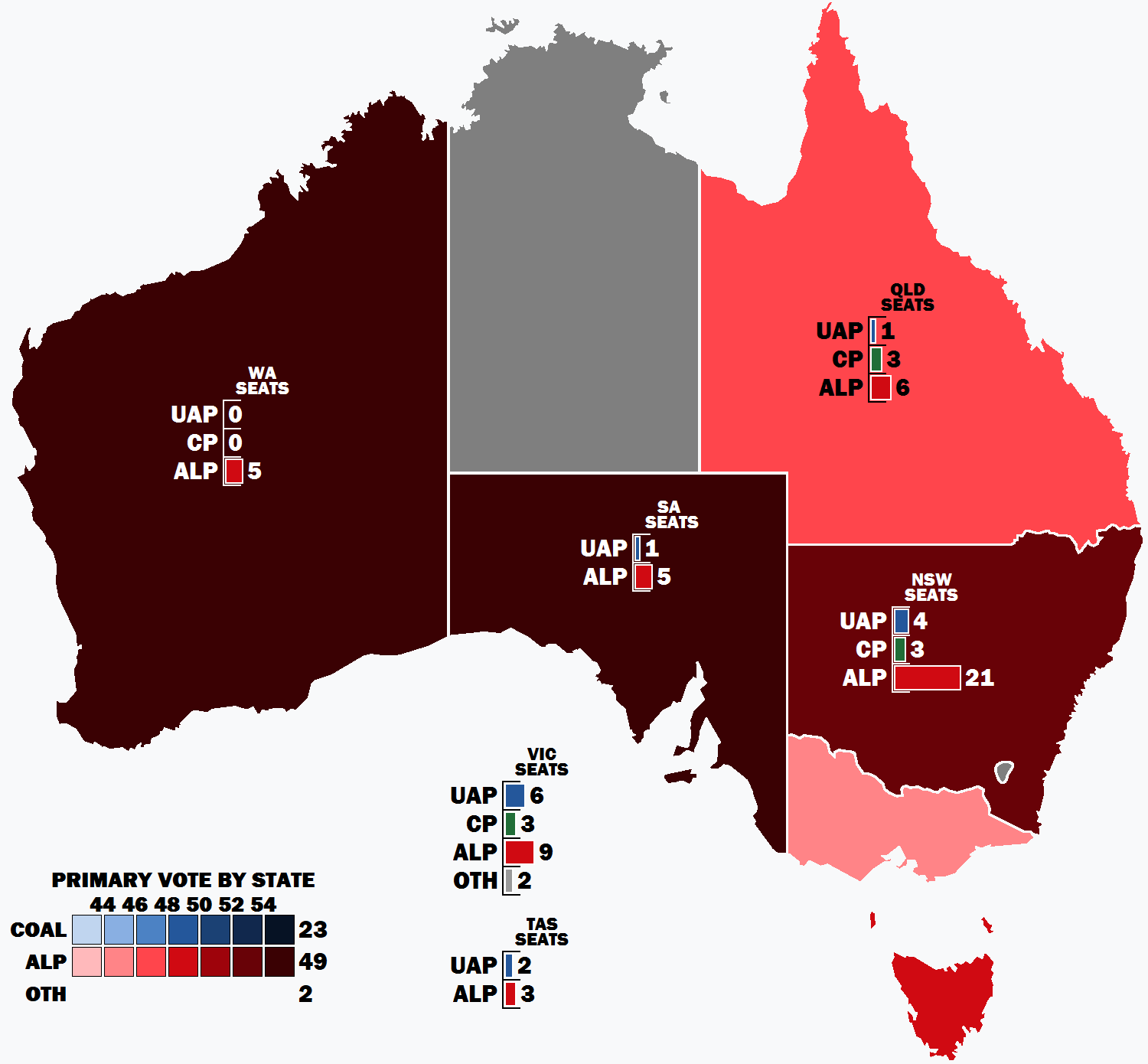 Result of the primary vote by state in the 1943 Australian federal election.